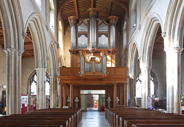 St Giles, Cripplegate, London EC2 - Organ, near to London, City of London, Great Britain.